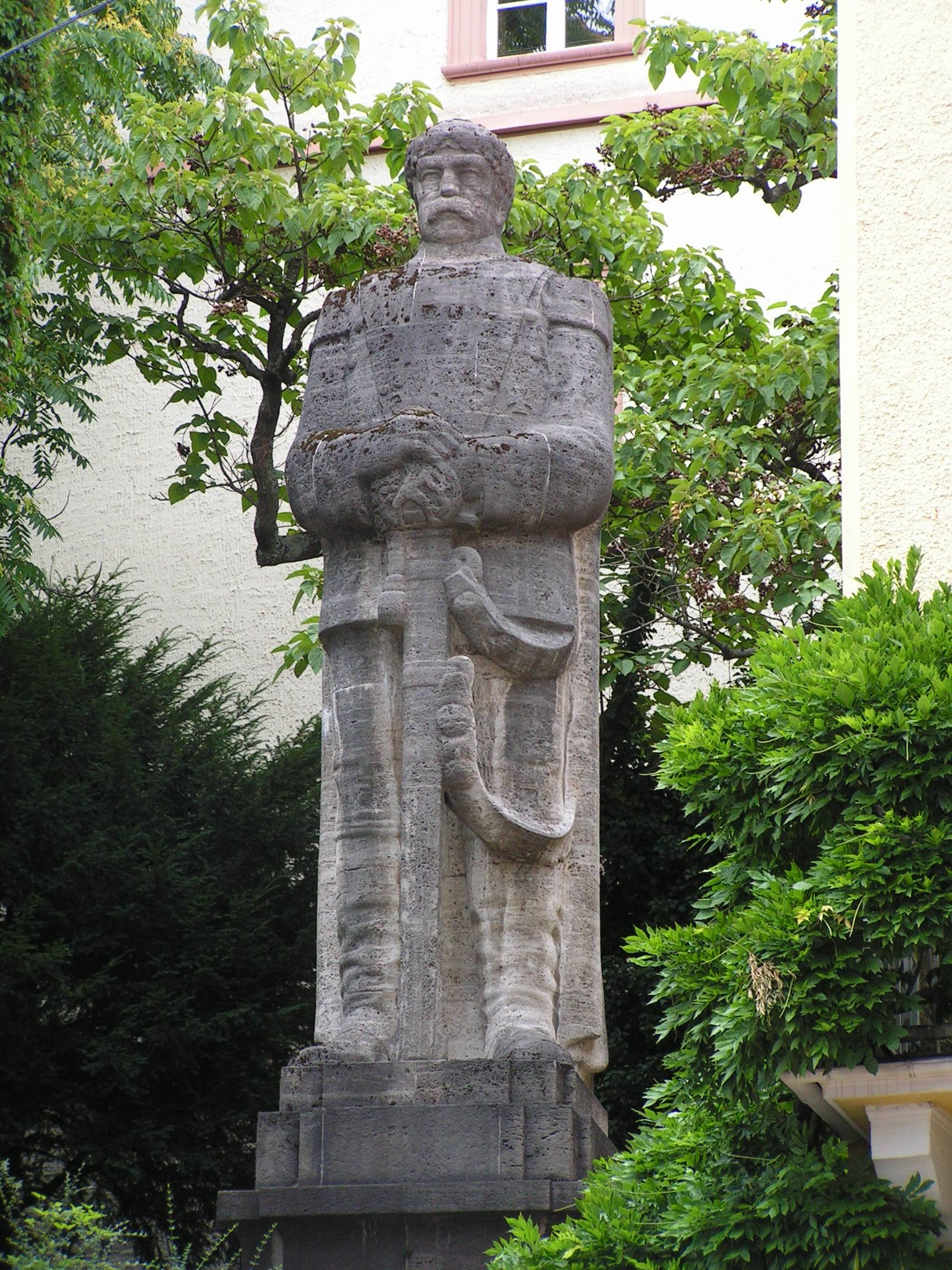 Statue of Otto von Bismarck in Baden-Baden, Germany. Sculptor: Oskar Kiefer